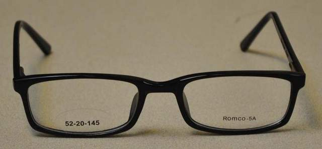 The GI glasses frame introduced in 2012 that replaced the brown S9 frame.